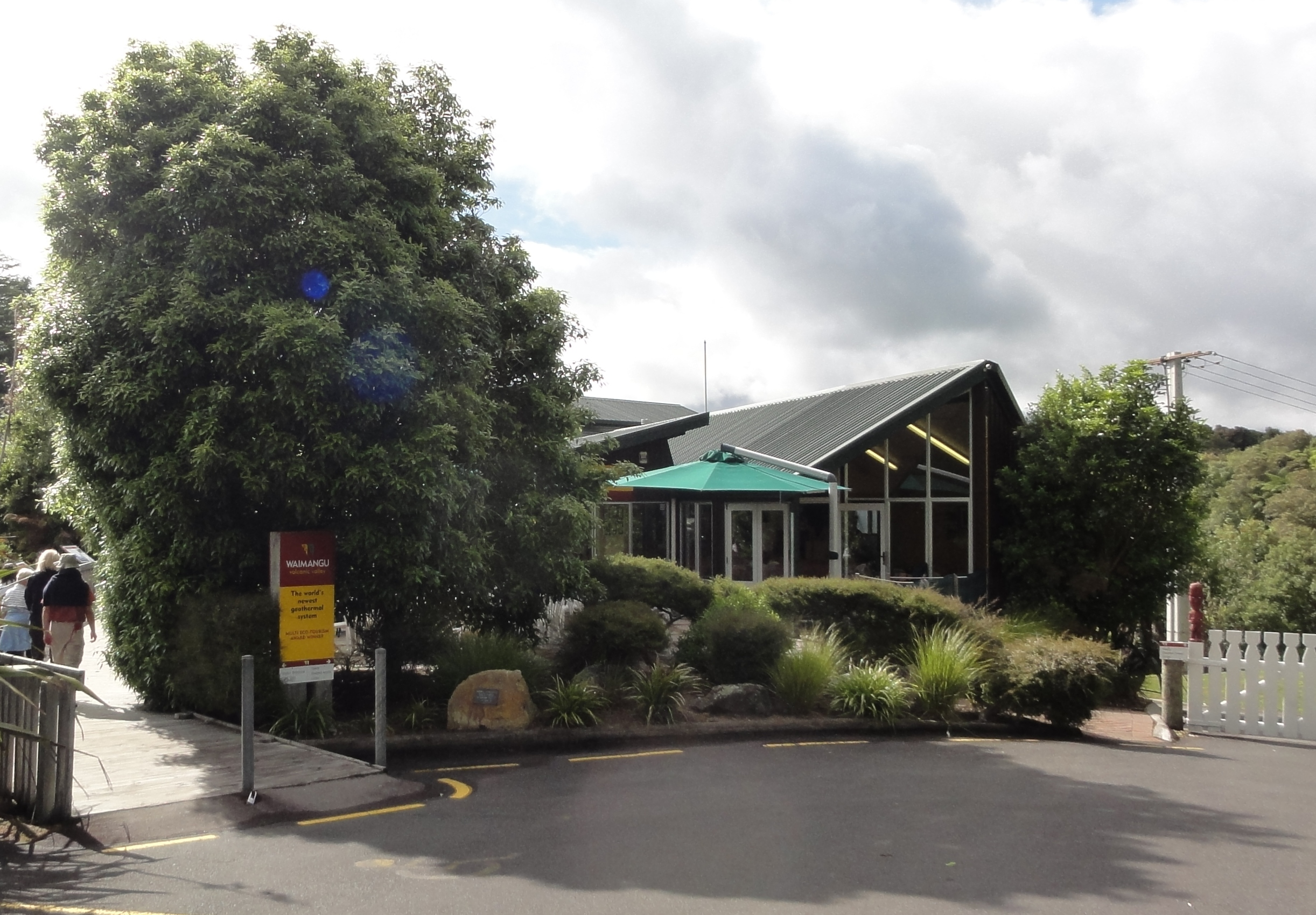 Waimangu Volcanic Valley, entrance and visitor center